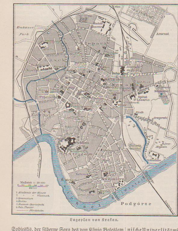 City map of Cracow, then a city in Imperial Austria's crown-land Galicia, published in a German encyclopedia (17 volumes) in 1896